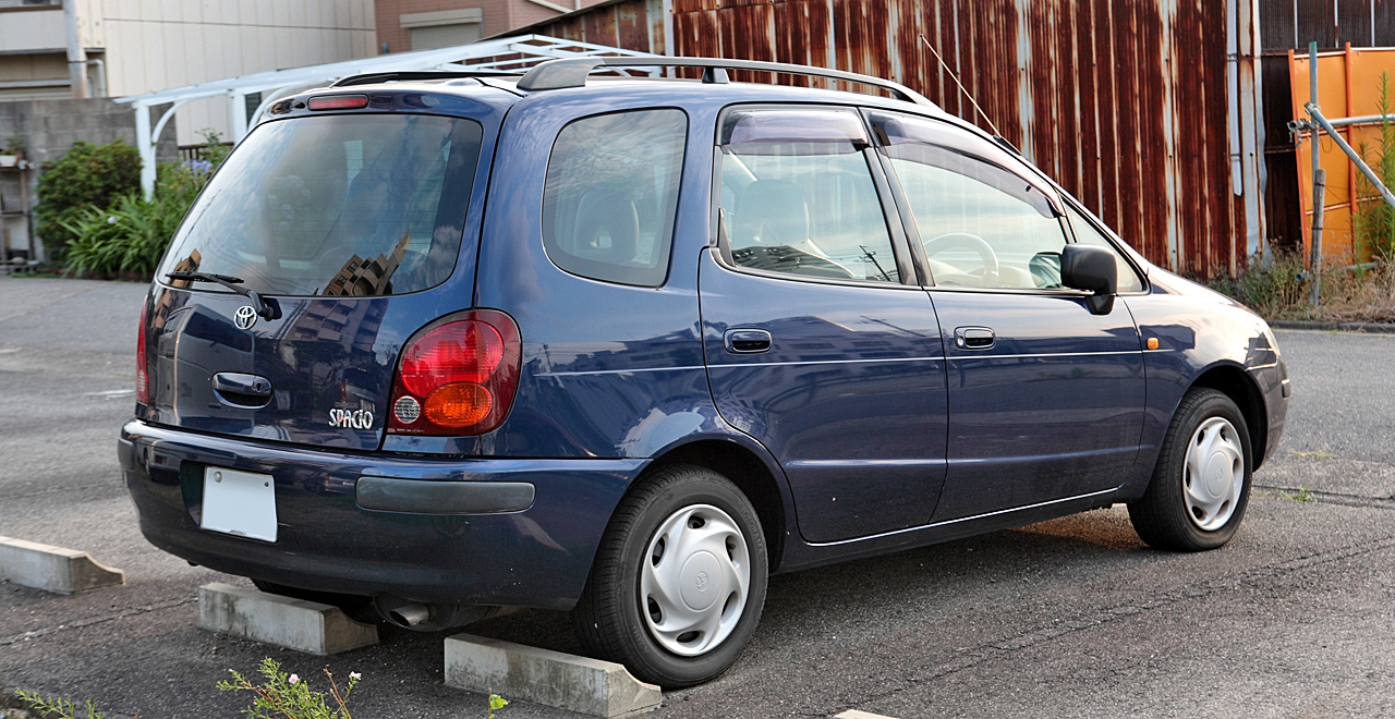 Toyota Corolla Spacio ( First generation )